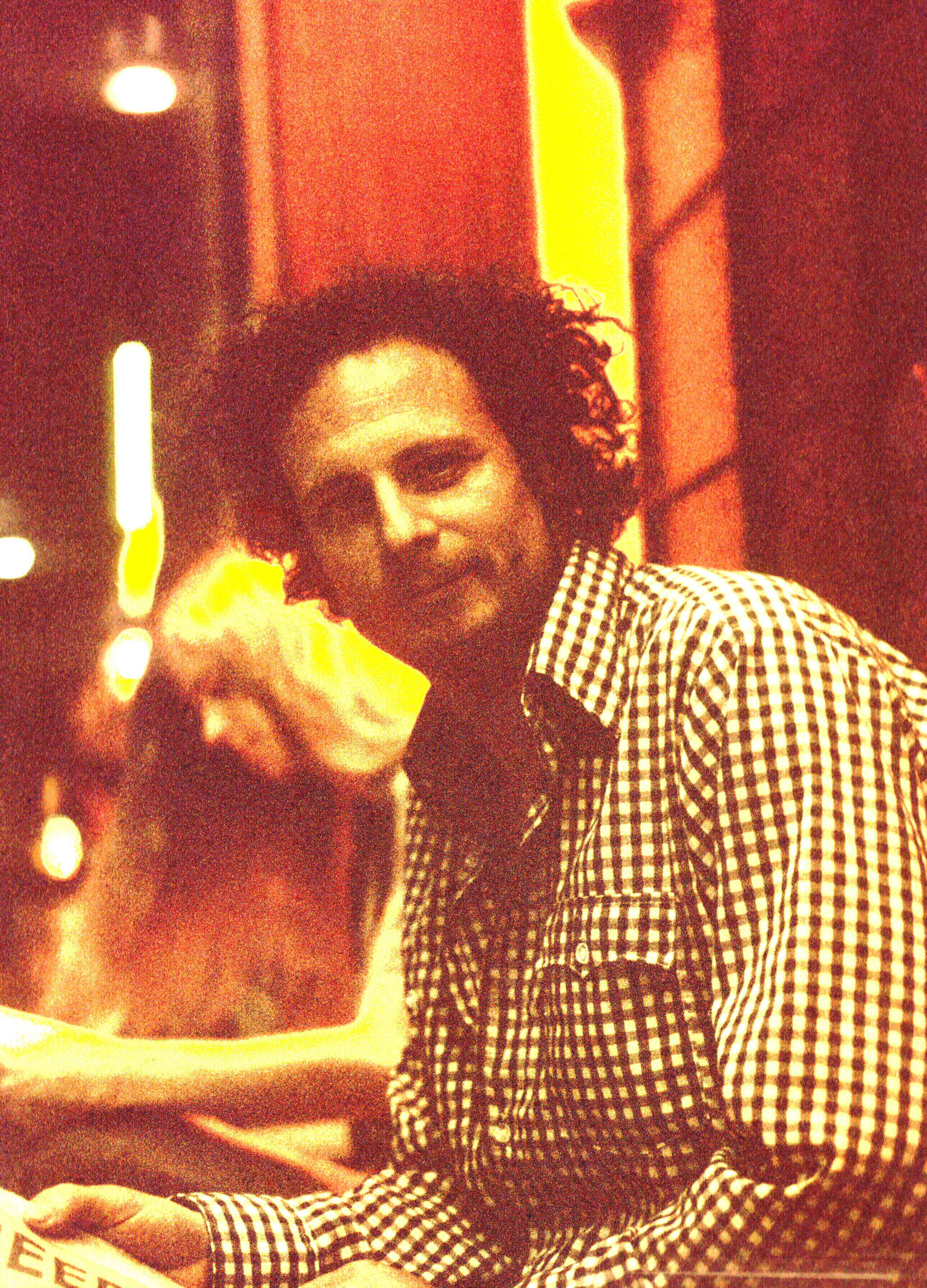 Wild Man Fisher in front of the Troubadour Los Angeles around 1975.